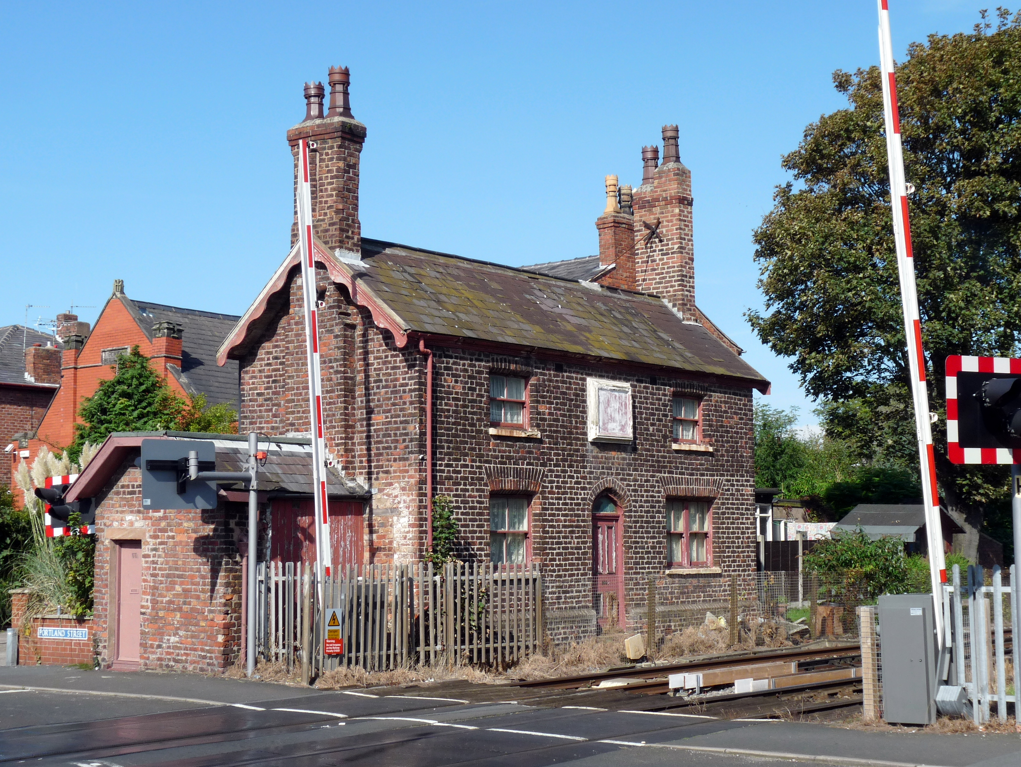 The former station building of Southport Eastbank Street railway station, situated by the level crossing on Portland Street, Southport, Merseyside. The station closed in 1851.